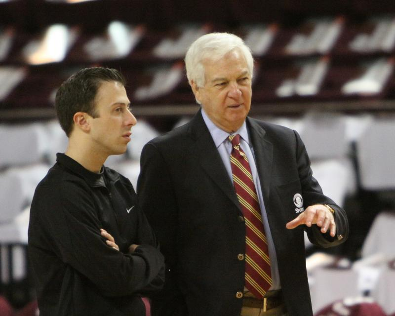 Richard Pitino & Bill Raftery CBS Sports